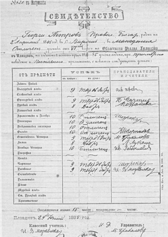 Georche Petrov`s certificate for bulgarian school